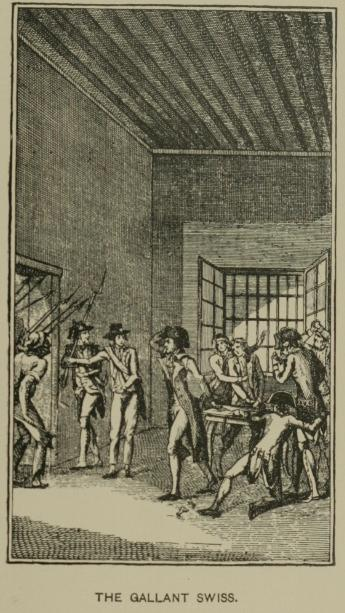 "The Gallant Swiss". The surviving Swiss Guards of the King of France before their beheading in the dungons of Paris.